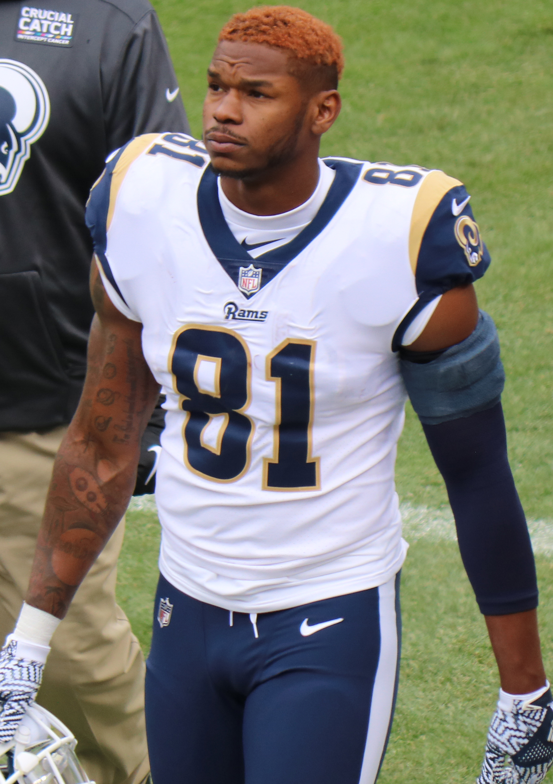 Gerald Everett, a National Football League player.